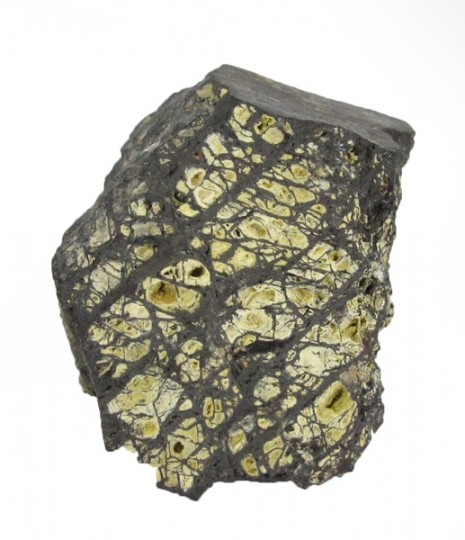 Anthoinite, Ferberite (Var: Reinite) Dimensions: 4.7 x 3.3 x 2.4 cm. Locality: Bugarama Mine, Northern Province, Rwanda Description: Anthoinite is a very rare anhydrous tungstate and this very rare and weird looking combination is from an obscure Rwanda locale, an unusual Al-rich phosphate pegmatite. It is rare from any world-wide locale. Striking box-works on three sides of the matrix are filled with straw-yellow anthoinite. The matrix is a real rarity in itself. Reinite is a rare ferberite varietal, that pseudomorphs scheelite crystals. This is a large, partially euhedral pseudomorph with two sharp faces. Choice very rare material, probably mined in the 1950s or 1960s, from the Matioli Collection.